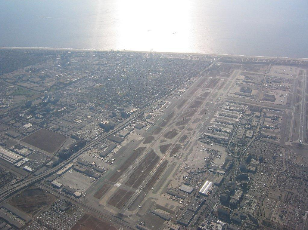 Los Angeles International Airport (LAX) and Santa Monica Bay. Picture was taken in 2003 (own work). Hendrik Harms